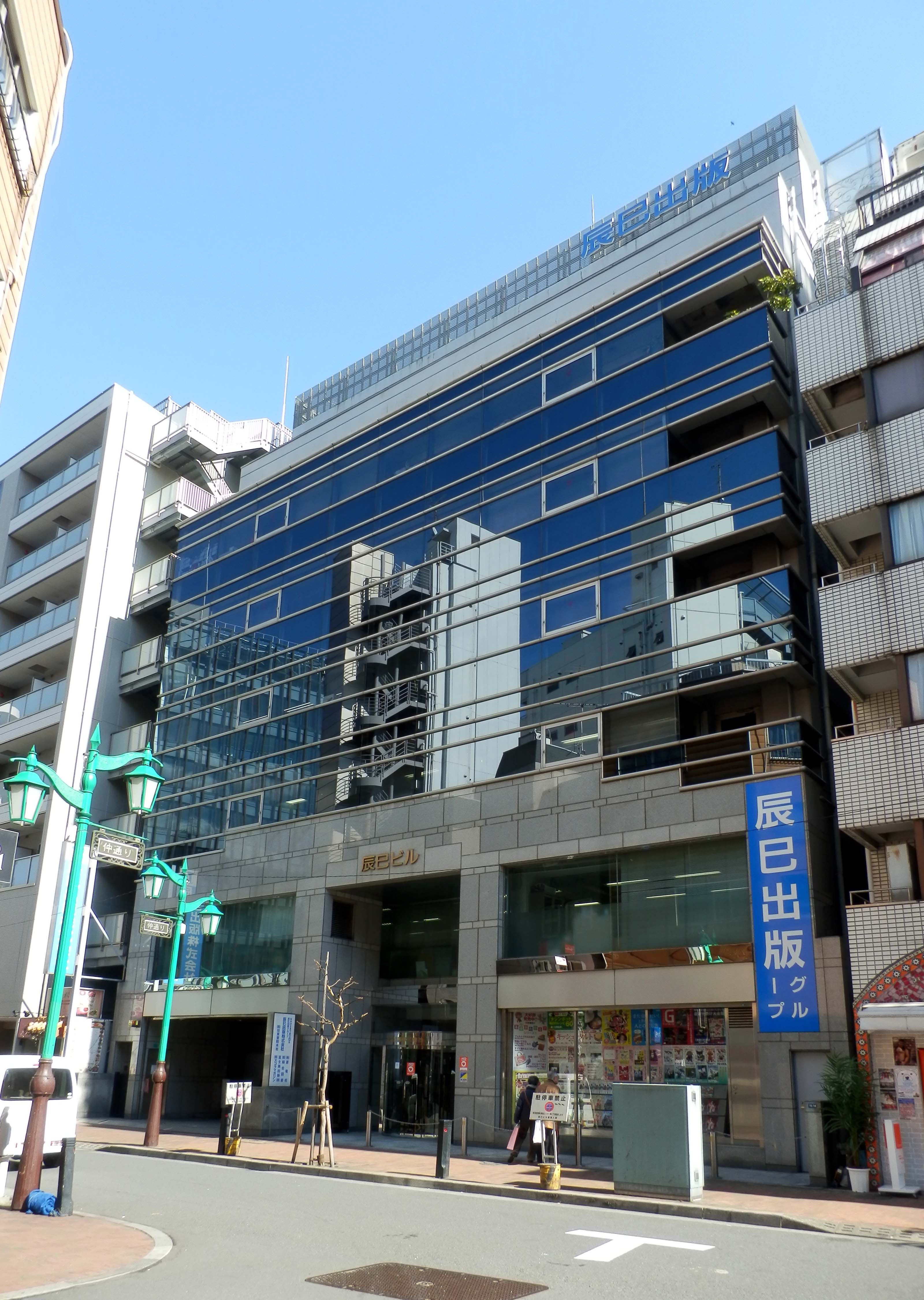 Tatsumi Publishing Co.,Ltd. (Publishing company in Tokyo, Japan)